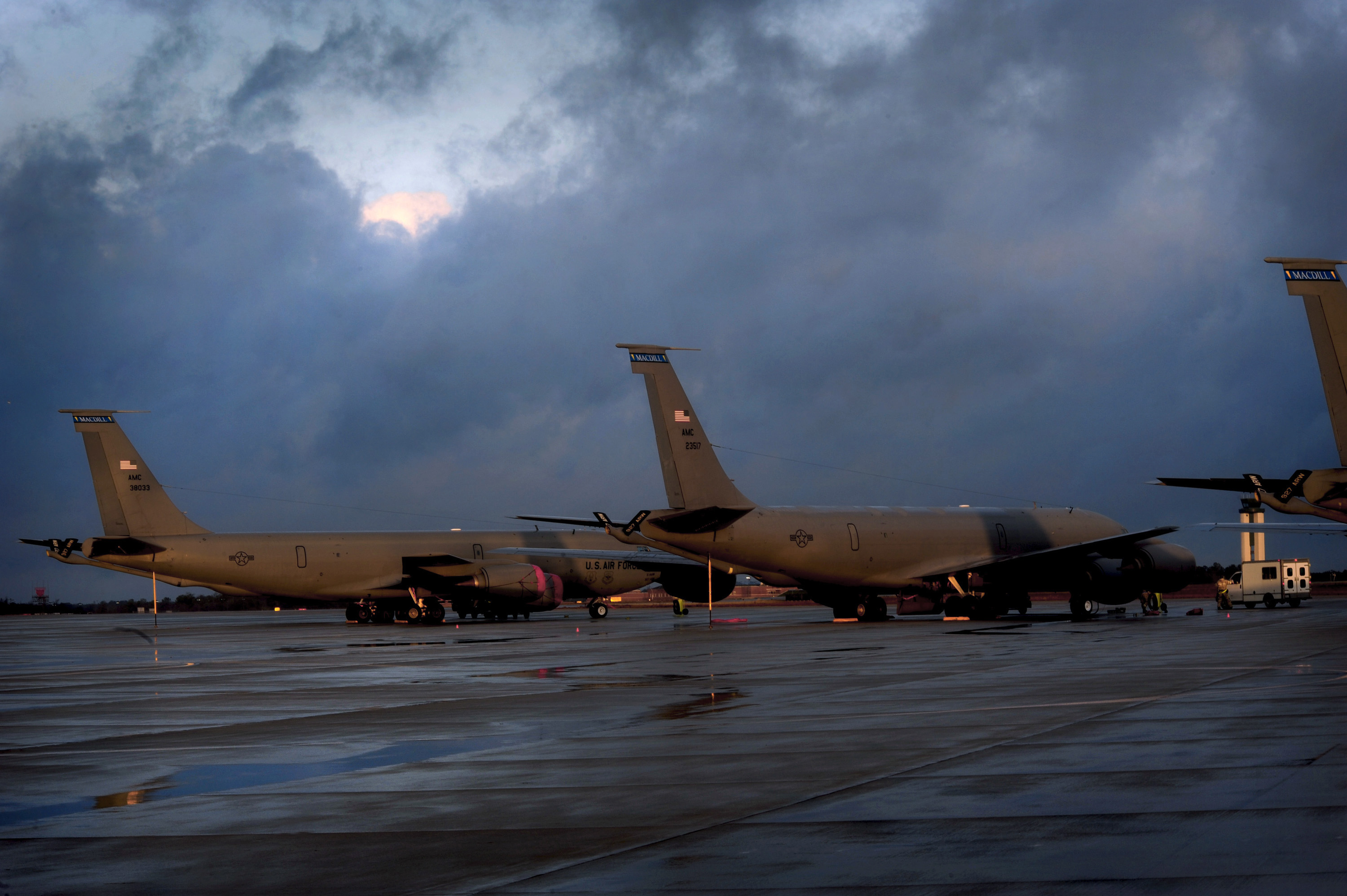 U.S. Air Force Airmen from the 112th Aircraft Maintenance Squadron prepare KC-135 Stratotanker aircraft on the flight line Jan 26, 2011, during an Operational Readiness Inspection at Combat Readiness Training Center Savannah, Ga. The ORI will inspect the wing's Airmen on their capability to survive and operate in a chemical, biological, and war time environment. The 6th Air Mobility Wing, 927th Air Refueling Wing, and the 73rd Aerial Port Squadron, are working together to make the 112th Air Expeditionary Wing. (U.S. Air Force photo by Staff Sgt. Angela Ruiz)